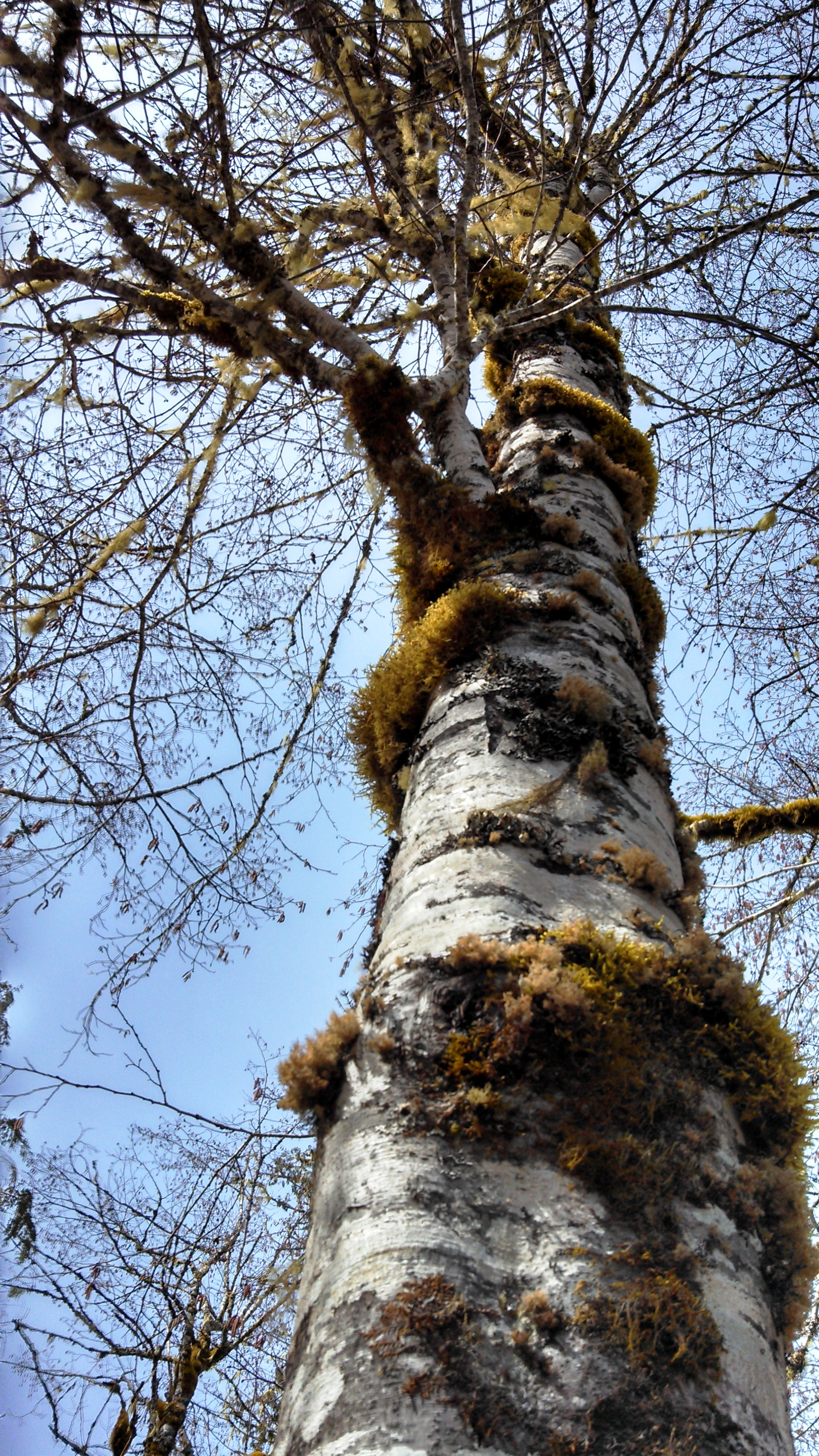 Alnus rubra (Red alder) with moss and lichen near Chenuis Falls Trailhead It is known as red alder because the bark was used to develop red and brown dyes. Source Carbon River Road, Mount Rainier National Park. IMG_20140322_125815_516